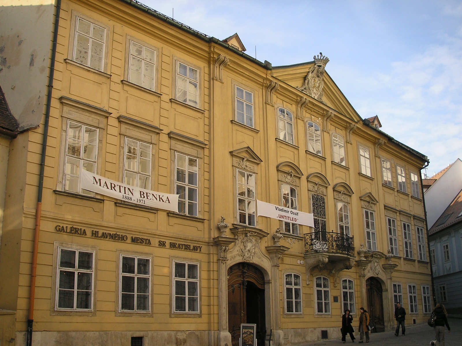 This medium shows the protected monument with the number 101-22/0 in the Slovak Republic. Image of the Franciscan monastery in Bratislava.